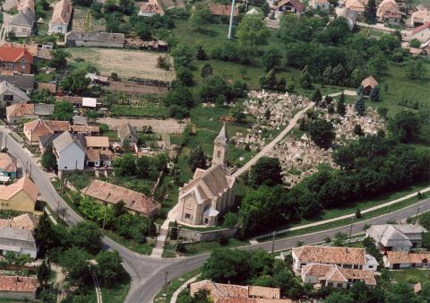 Kocs, Hungary, aerialphotography